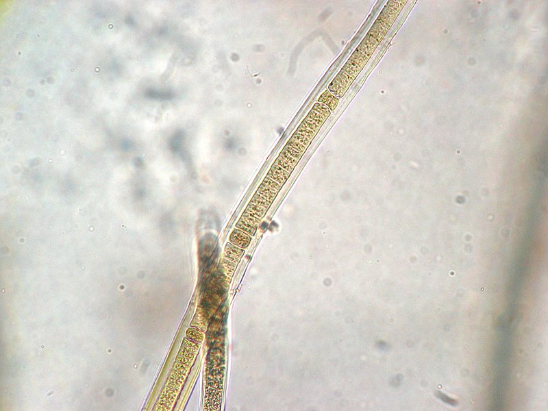 This work is free and may be used by anyone for any purpose. If you wish to use this content, you do not need to request permission as long as you follow any licensing requirements mentioned on this page.